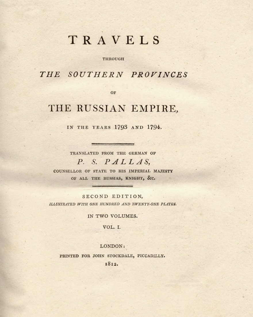 Title page of the book Travels through the southern Provinces of the Russian Empire, in the years 1793 and 1794. Translated from the german of P. S. Pallas, counsellor of state to his imperial Majesty of all the Russias, knight, & c. Second edition, illustrated with one hundred and twenty-one plates. In two volumes. Vol. I. London: Printed for John Stockdale, Piccadilly. 1812.